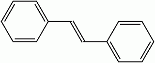 Description: Chemical structure of stilbene Author, date of creation: selfmade by Shaddack, 22 October 2005 Source: self-made Copyright: Public Domain (PD) Comments: b/w PNG; ChemWindow